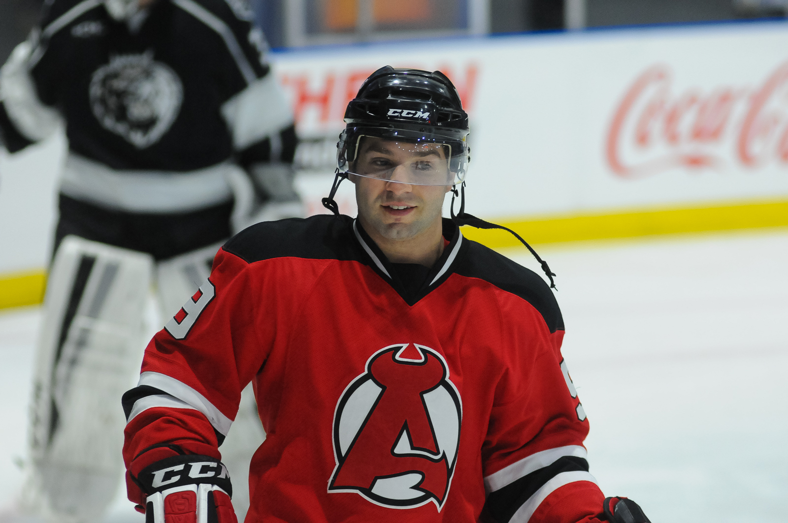 Ice hockey player Joe Whitney during a skill competition (AHL).